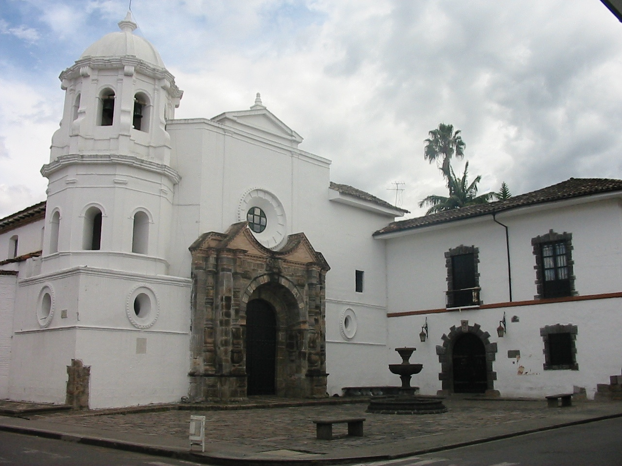 Santo Domingo Church and Law Faculty